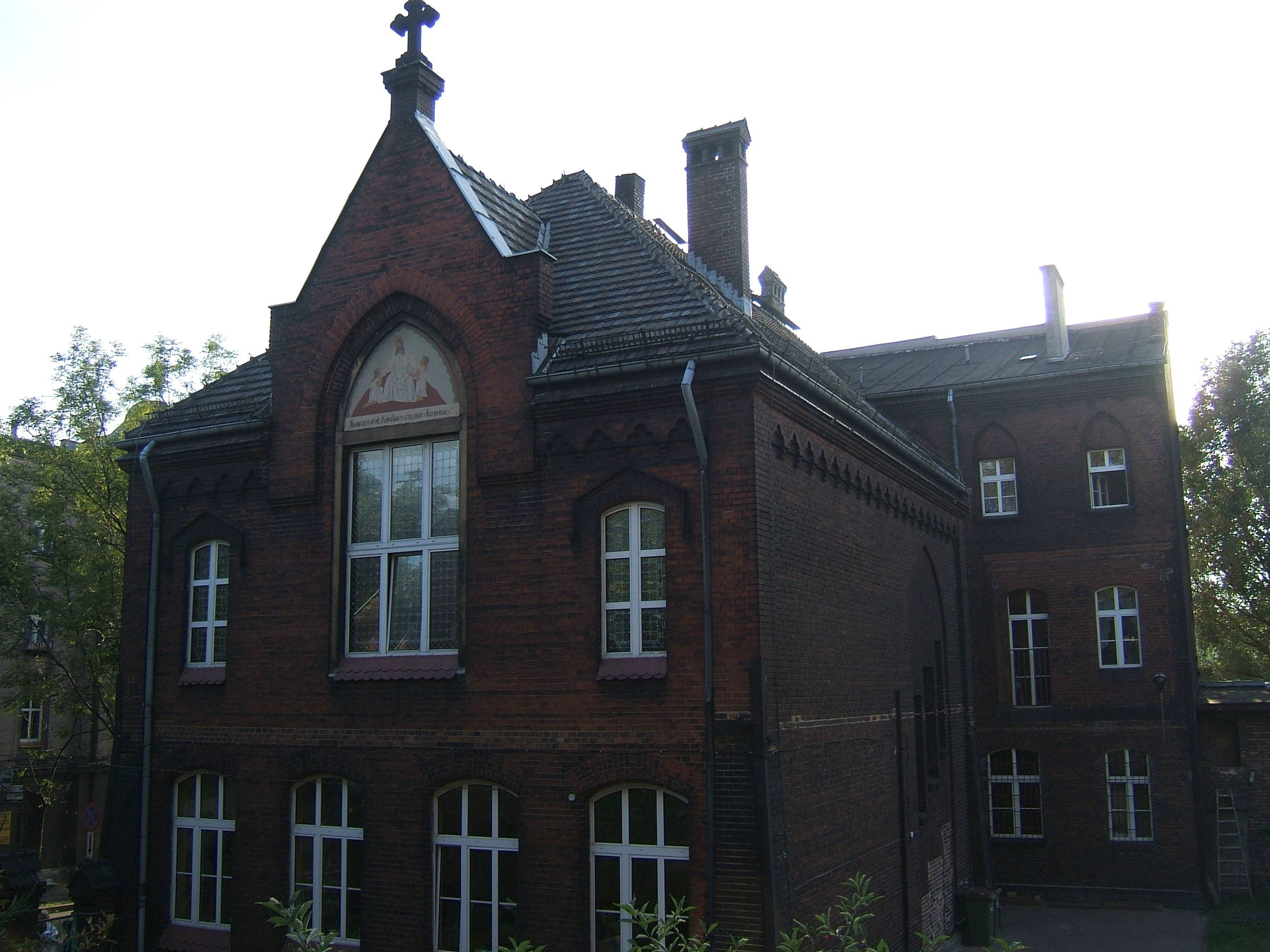 Rectory in Chorzów Stary.